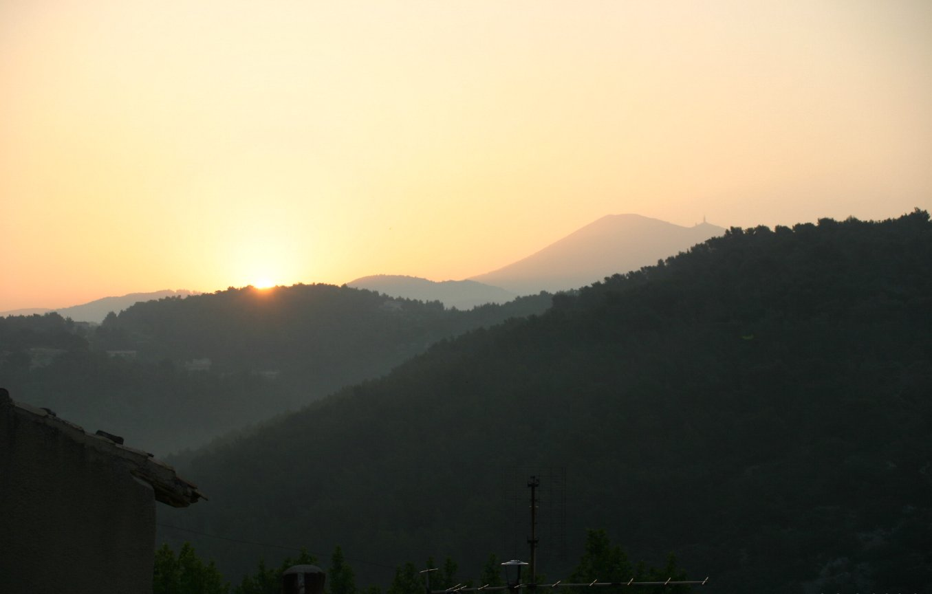 Early morning. Mont Ventoux seen from south west.